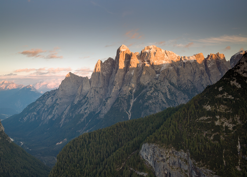 Large On Black B l a c k M a g i c